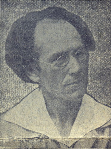 Photograph